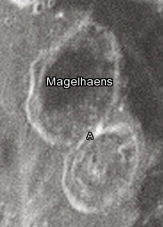 Magelgaens lunar crater as seen from Earth with satellite craters labeled